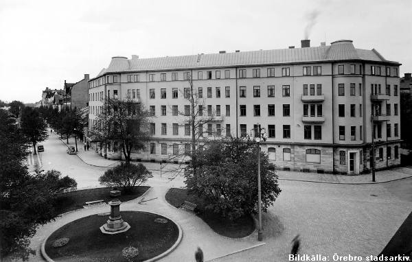 Hotel Continental, Örebro, Sweden